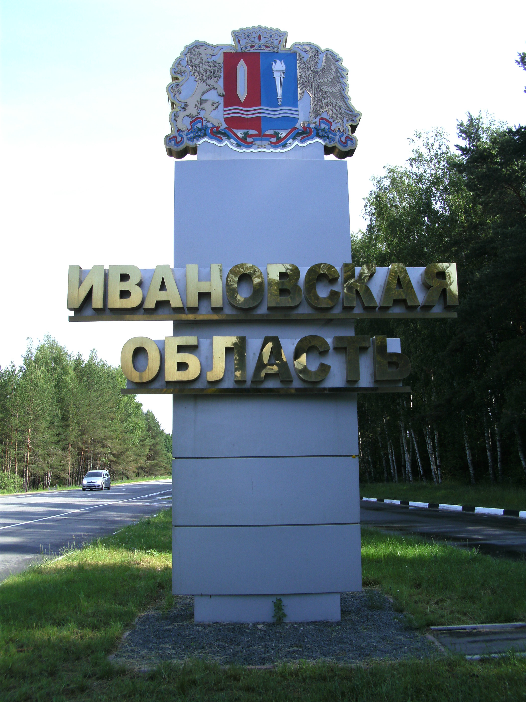 The sign monument at the border Ivanovo region/Vladimir region (Russia)